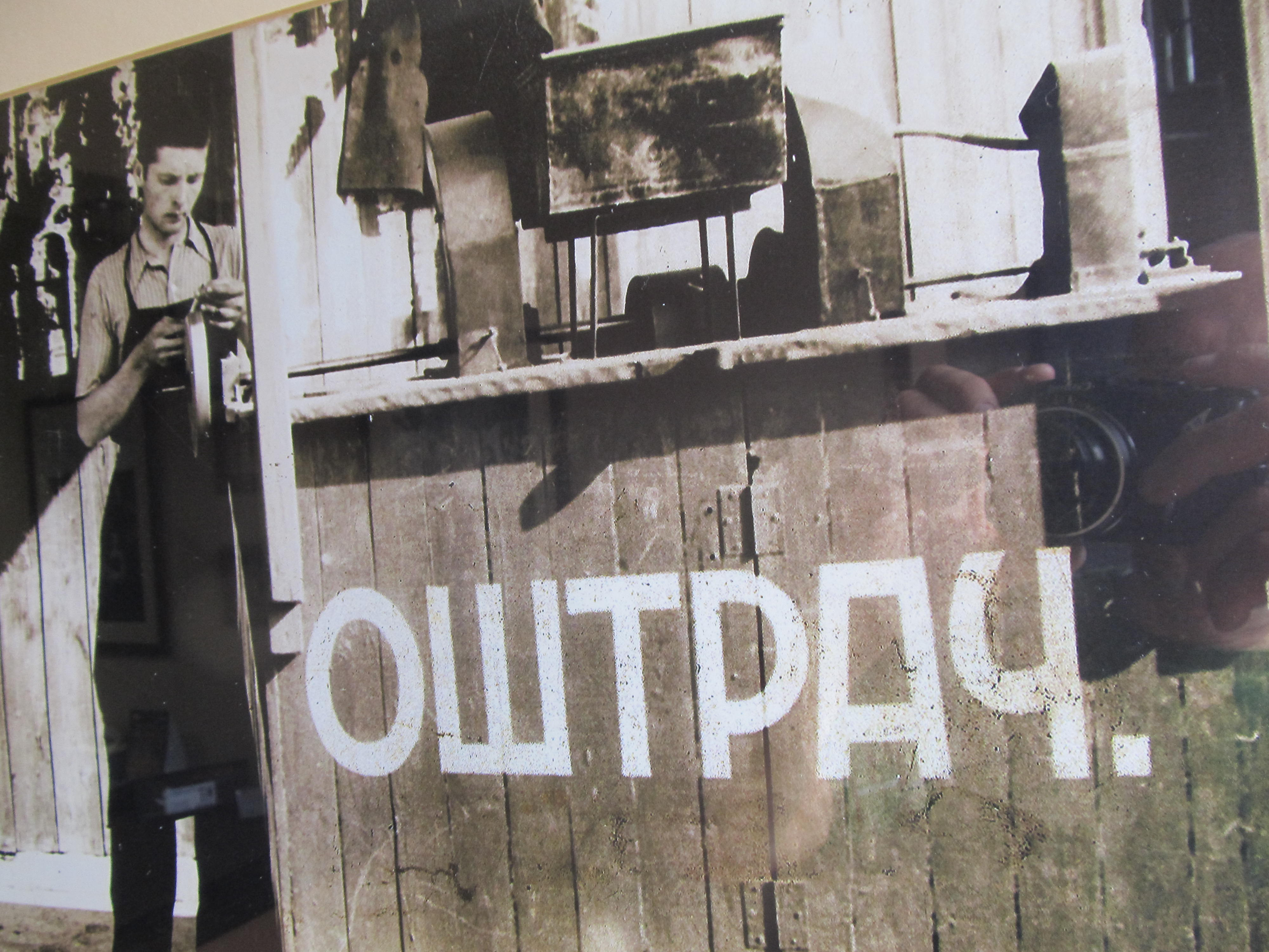 Sharpener in Serbia